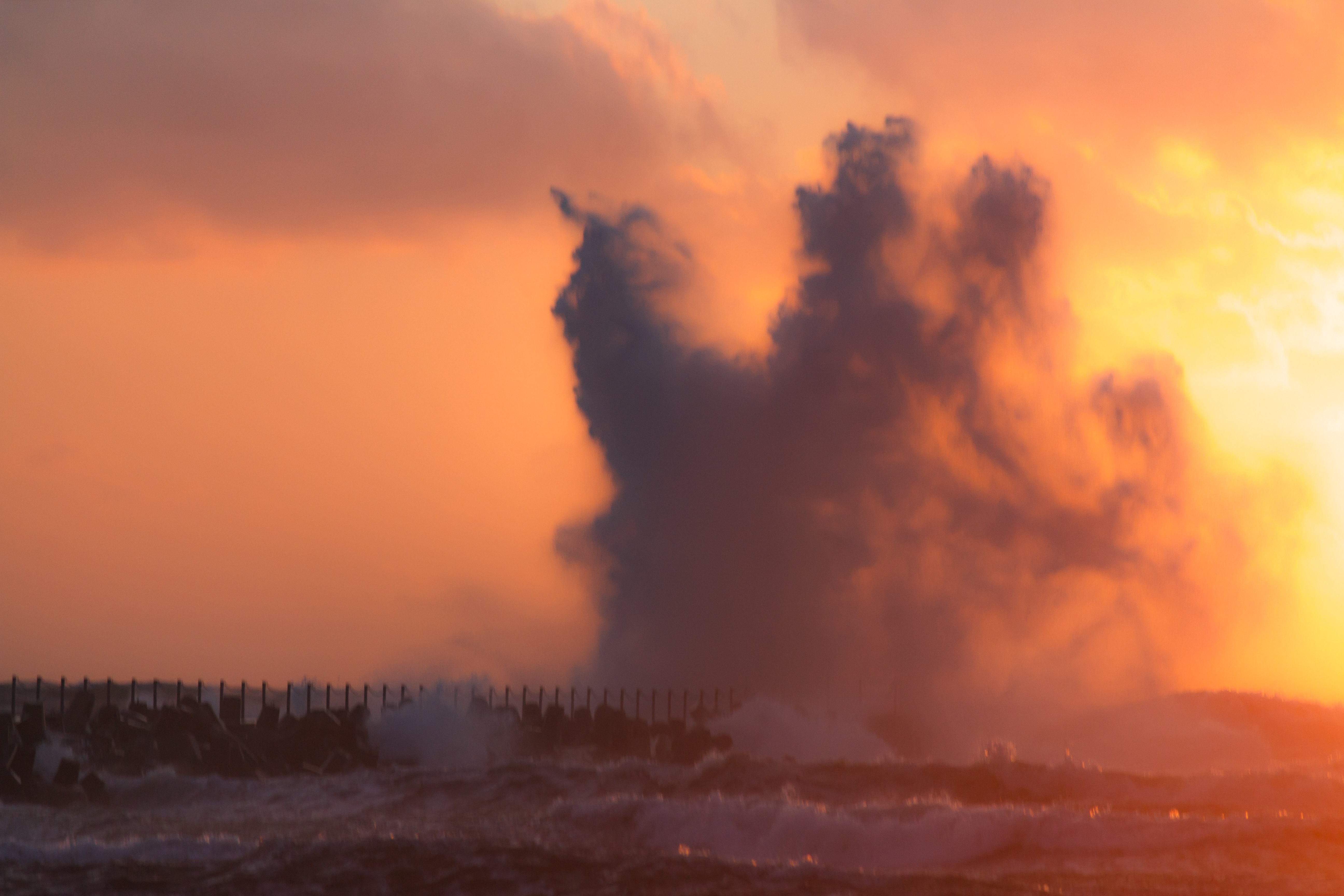 Large wave breaking at the end of the pier at Nørre Vorupør during a small summer storm at sunset